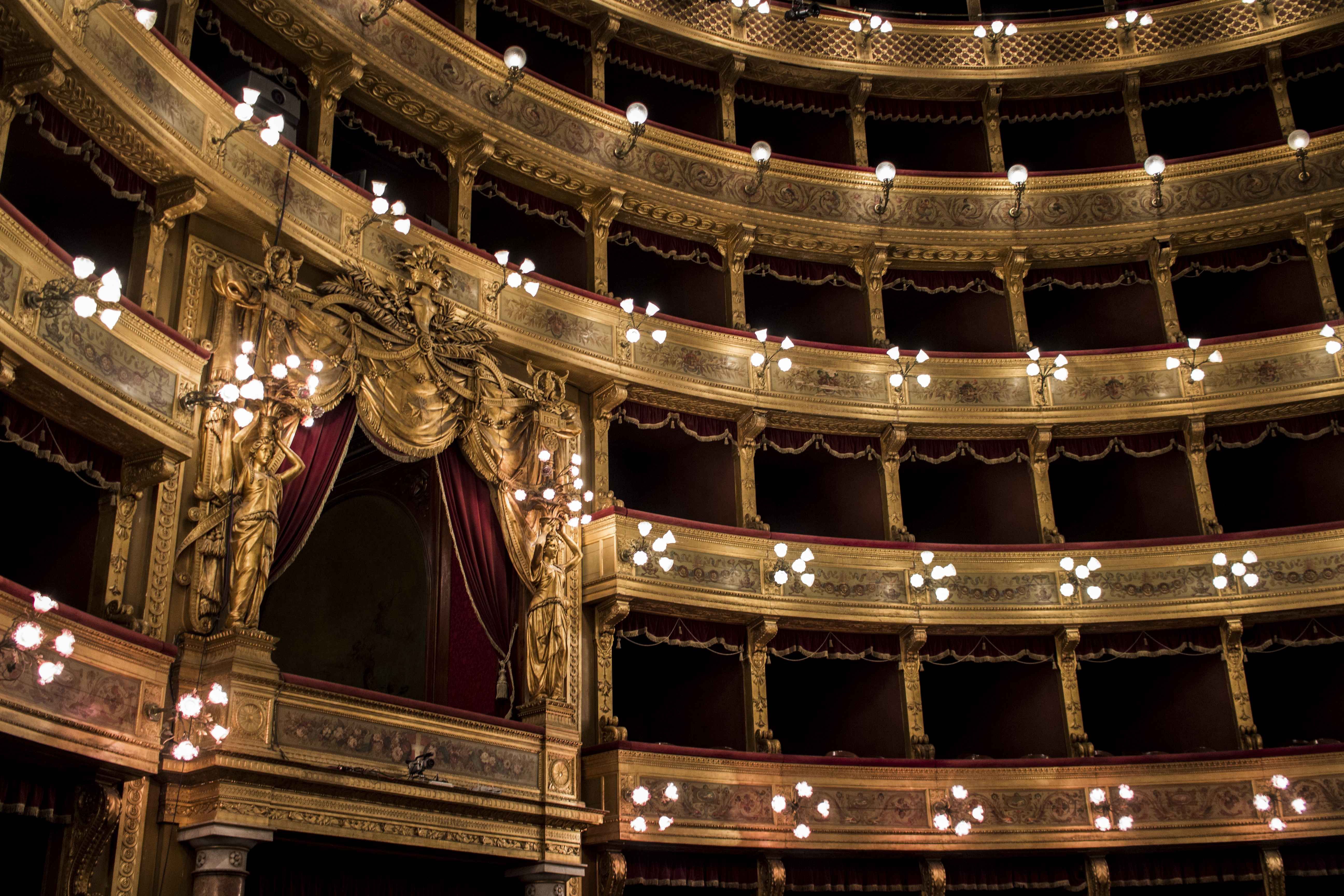 This is a photo of a monument which is part of cultural heritage of Italy.